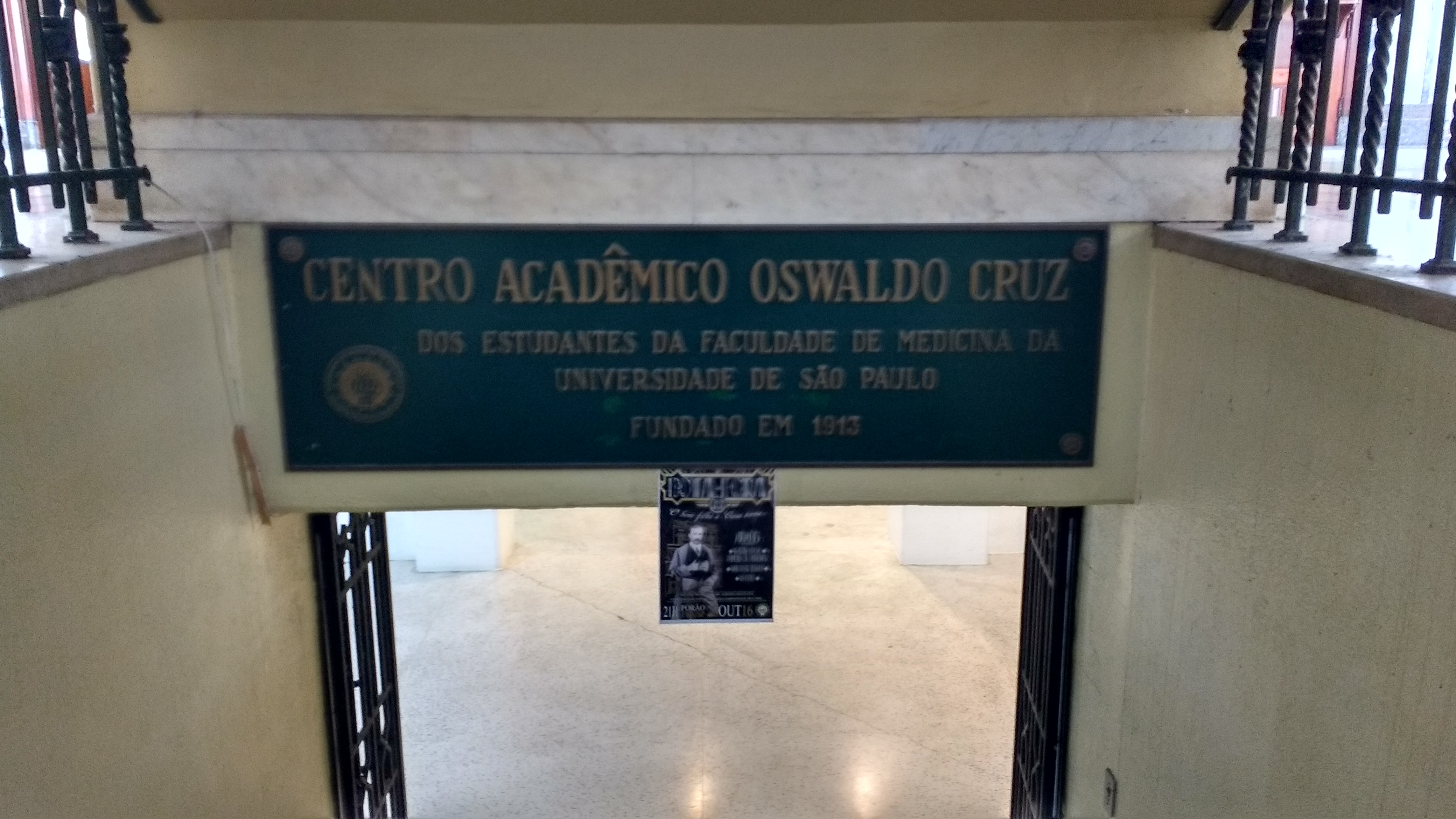 Entrance to the college's academic center, named after Oswaldo Cruz.